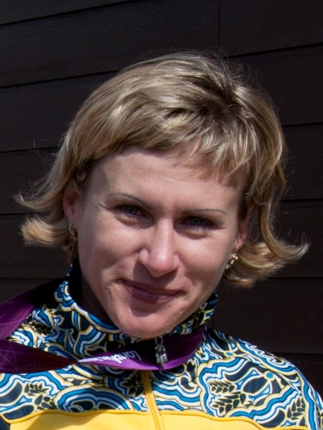 Inna Osypenko-Radomska - Ukraine - Silver Medalist K1 200m